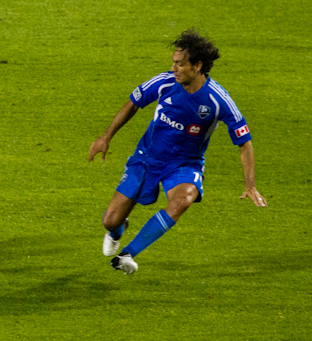 Alessandro Nesta of the Montreal Impact during a Major League Soccer against the New York Red Bulls at Stade Saputo in Montreal, 28 July 2012.